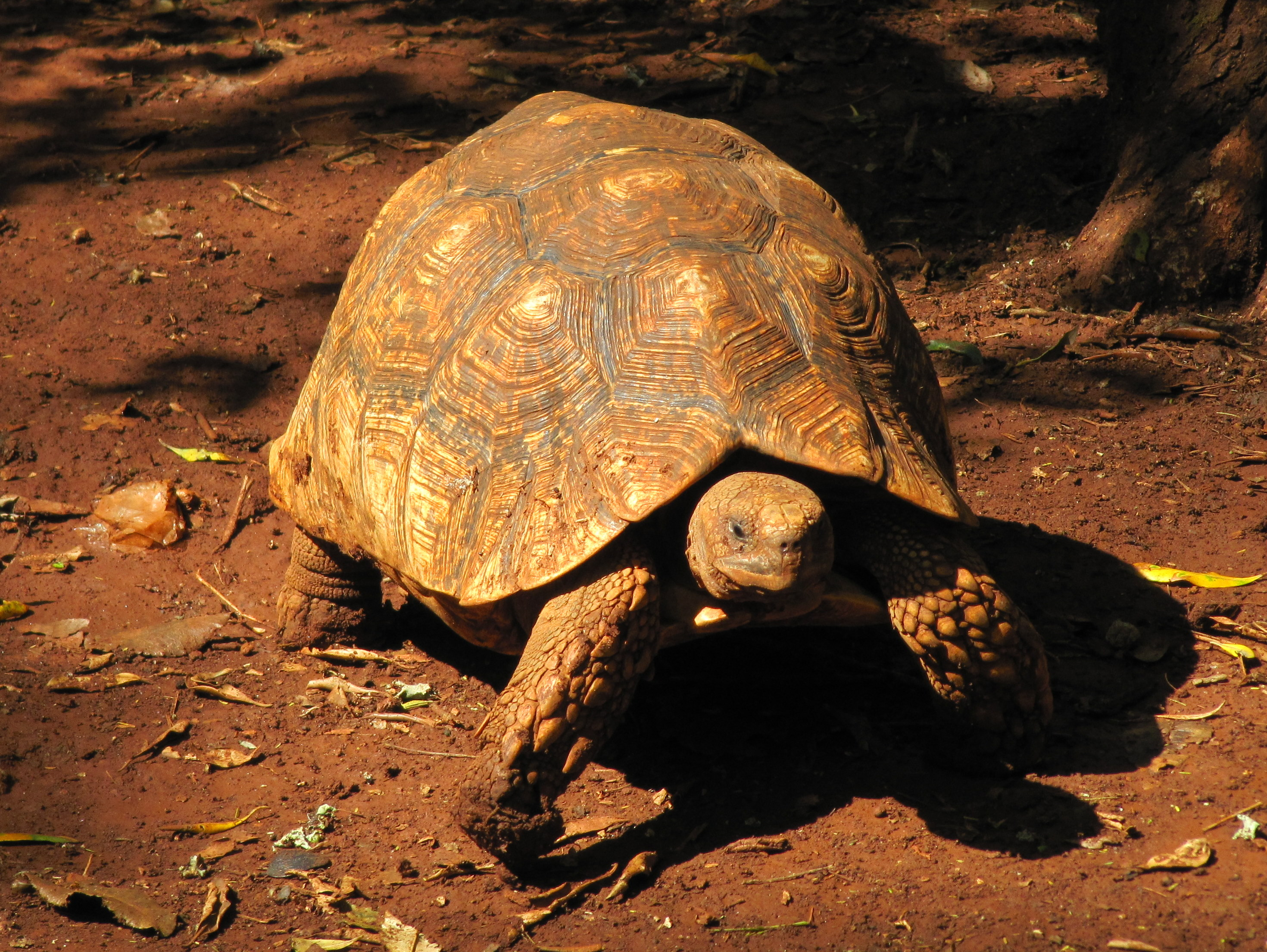 Leopard tortoise in Giraffe Centre, Kenya